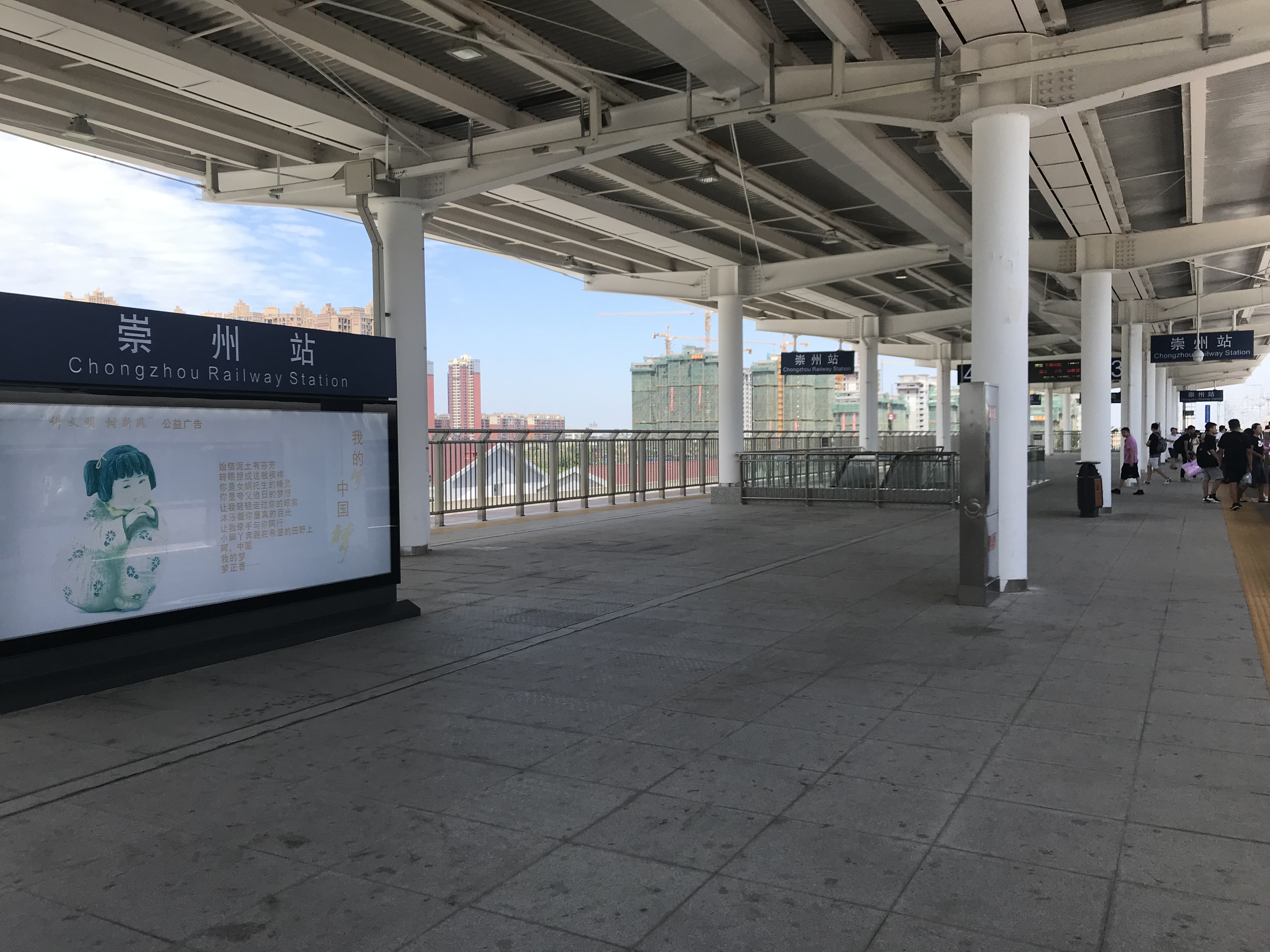 201908 Platform 3,4 of Chongzhou Station